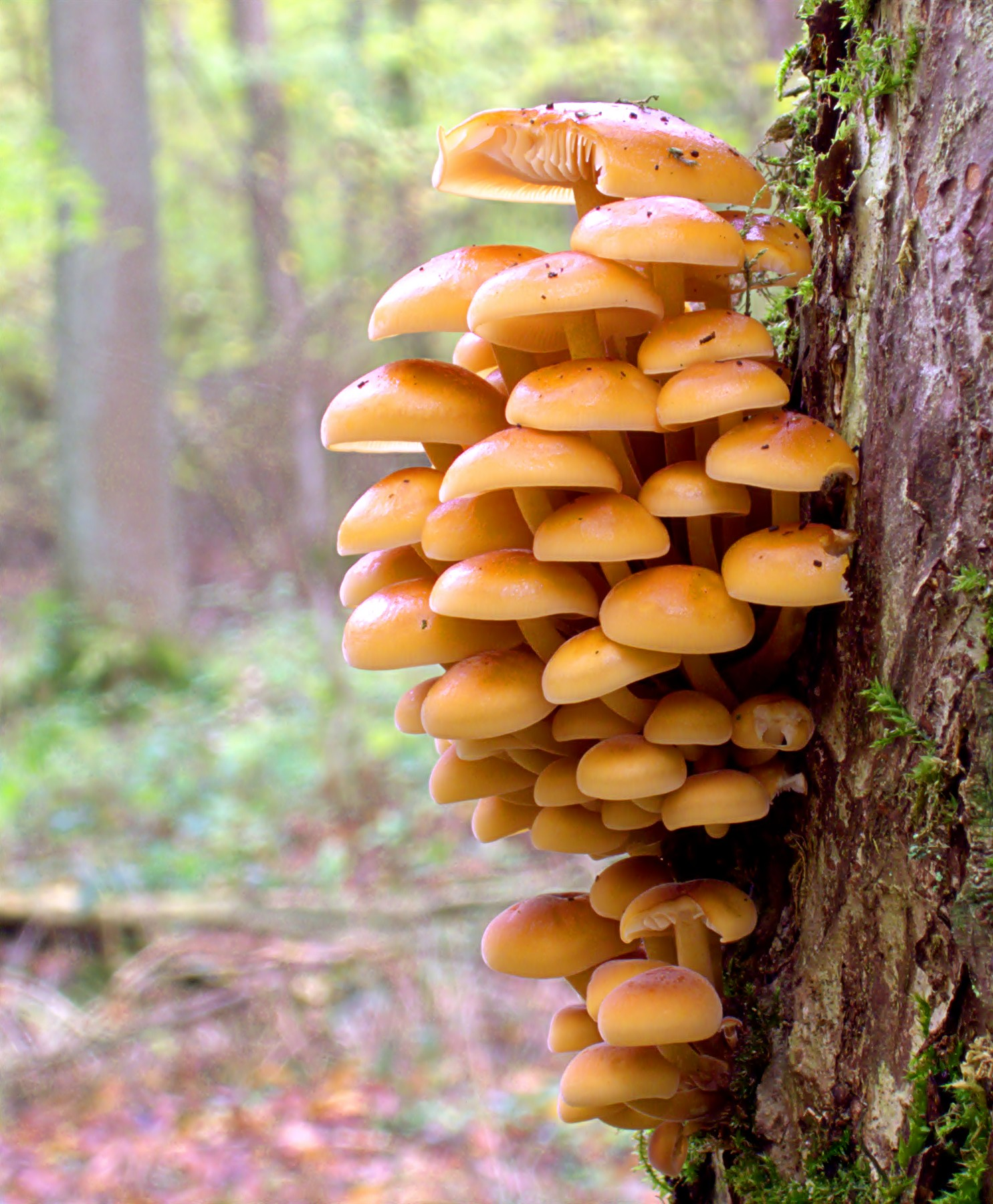 Name: Flammulina velutipes. Family: Marasmiaceae. Location: Münster, NRW, Germany